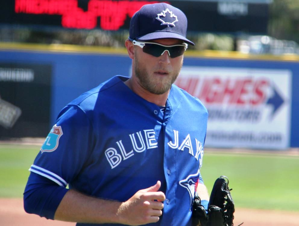 Michael Saunders on March 23, 2016